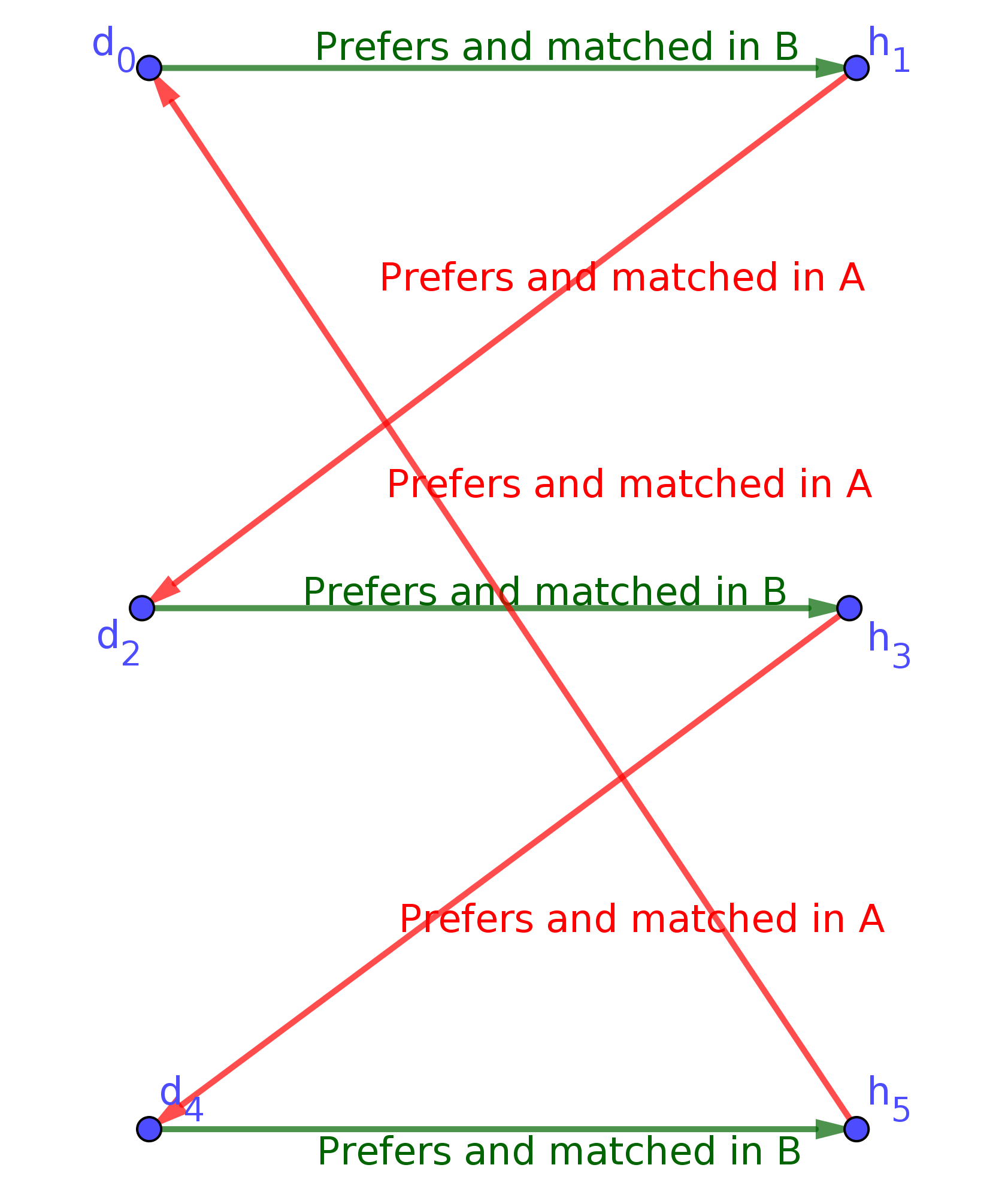 Different stable matchings. Created with GeoGebra 5.0